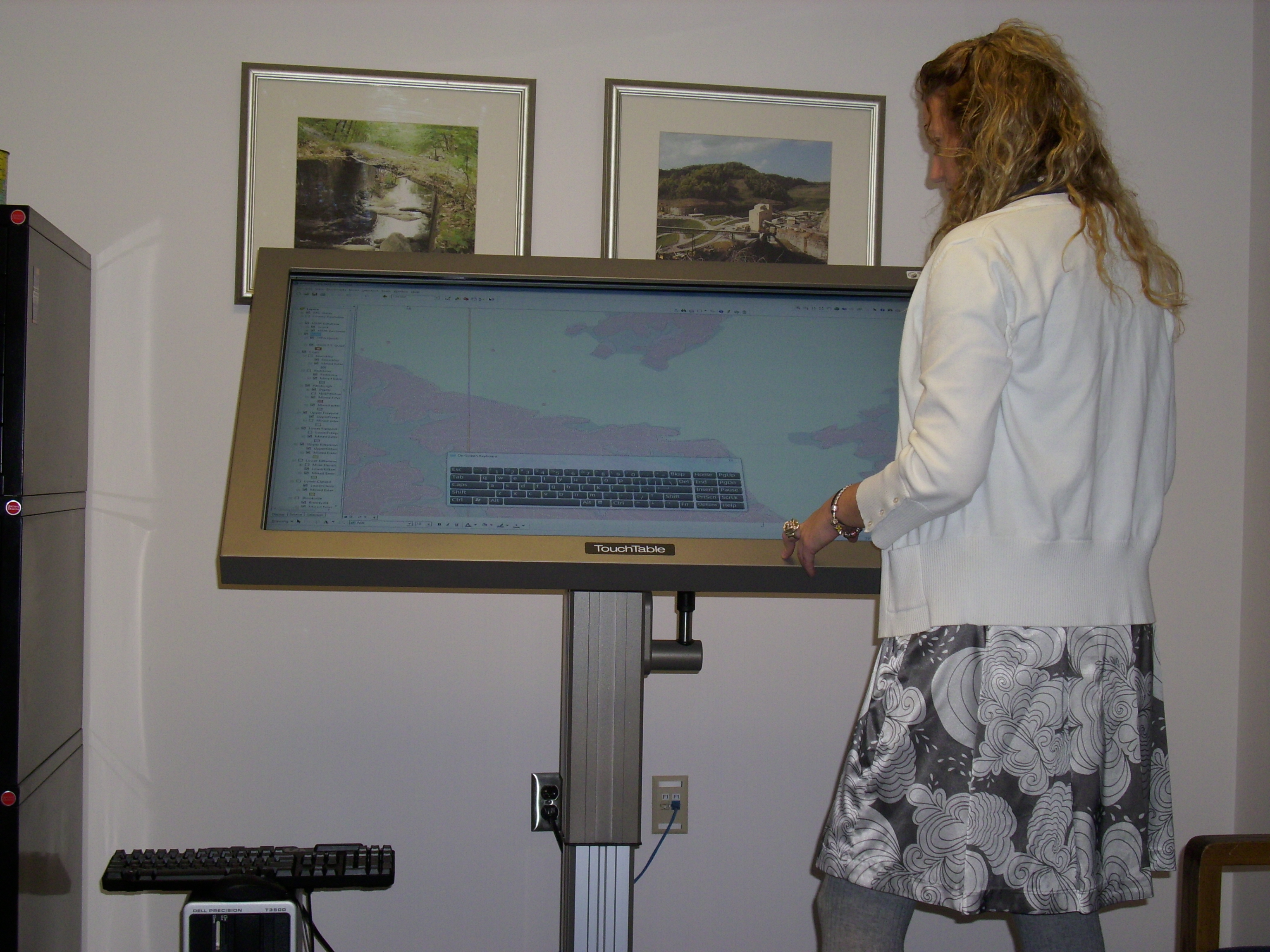 Geographer using TouchTable